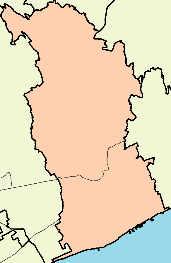 Germasogeia Municipality with quarters.